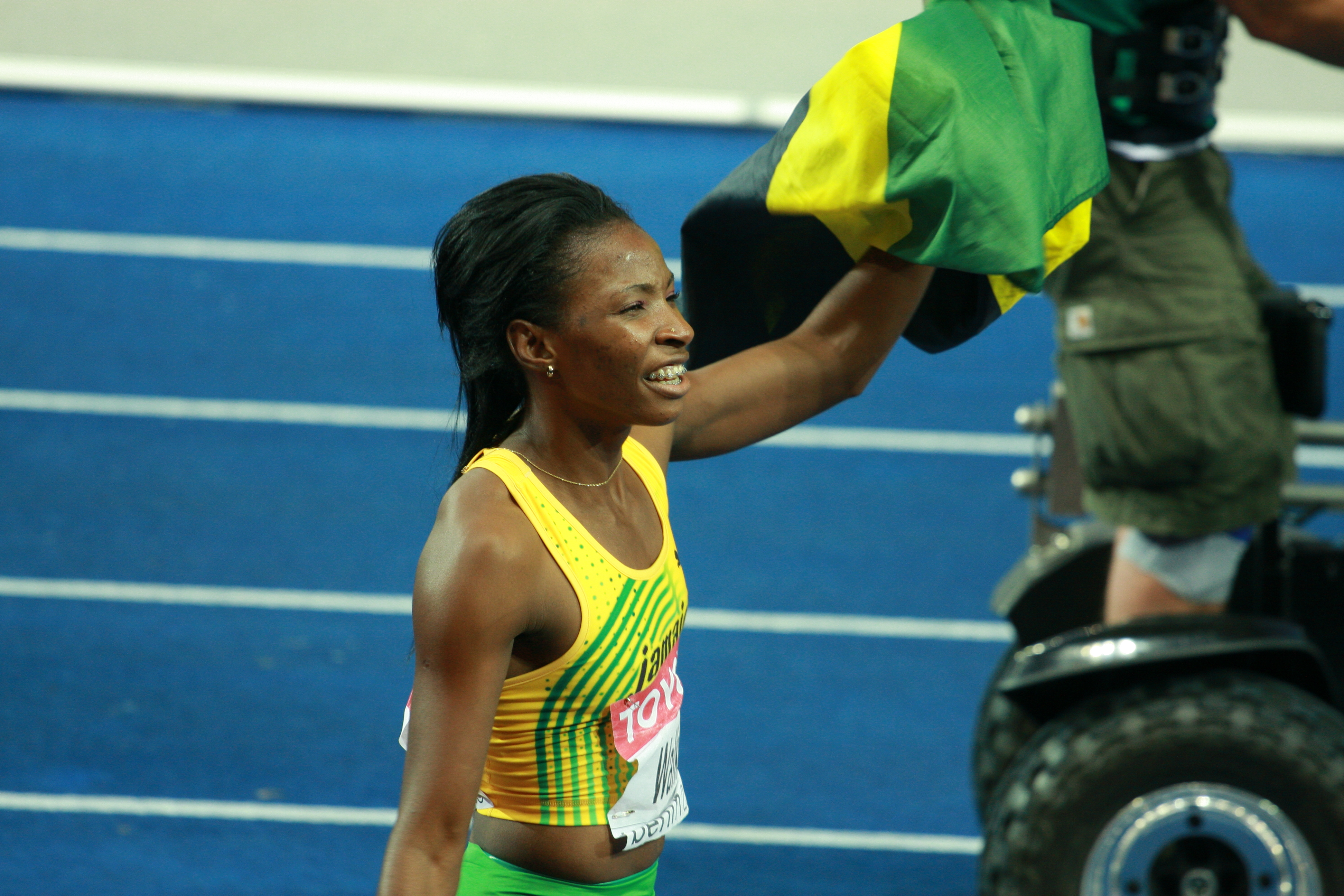 400m Hurdles World Champion 2009